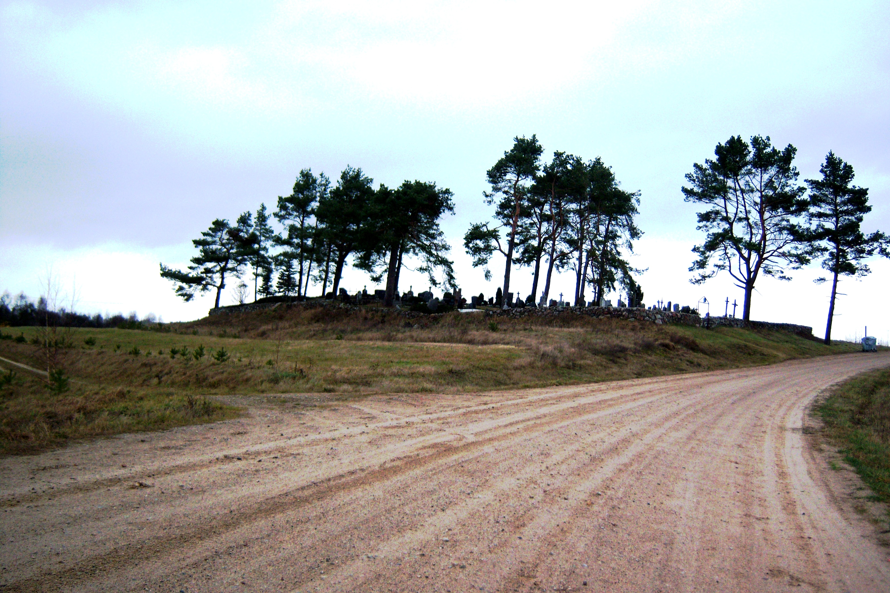 Kaliūkščiai cemetery near Aukštadvaris, Trakai district. Lithuania